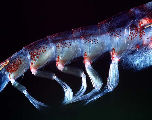 The pleopods (swimming legs, or "swimmerets") of a krill (here a member of Euphausia superba, the Antarctic krill).